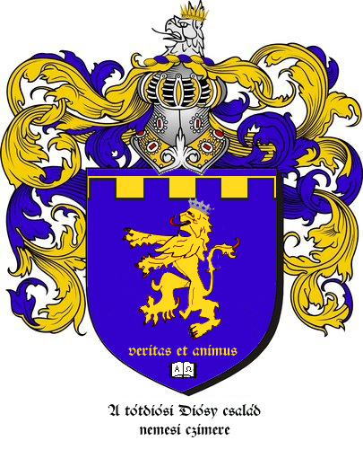 This is the coat of arms of Diósy de Tótdiós family.